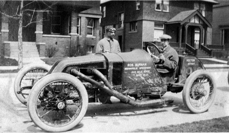 From the personal photo album of George L Mooney, provided by Janet Lowry for unlimited use. Bob Burman's Keeton (automobile company) racer photo taken by George L Mooney in 1913.